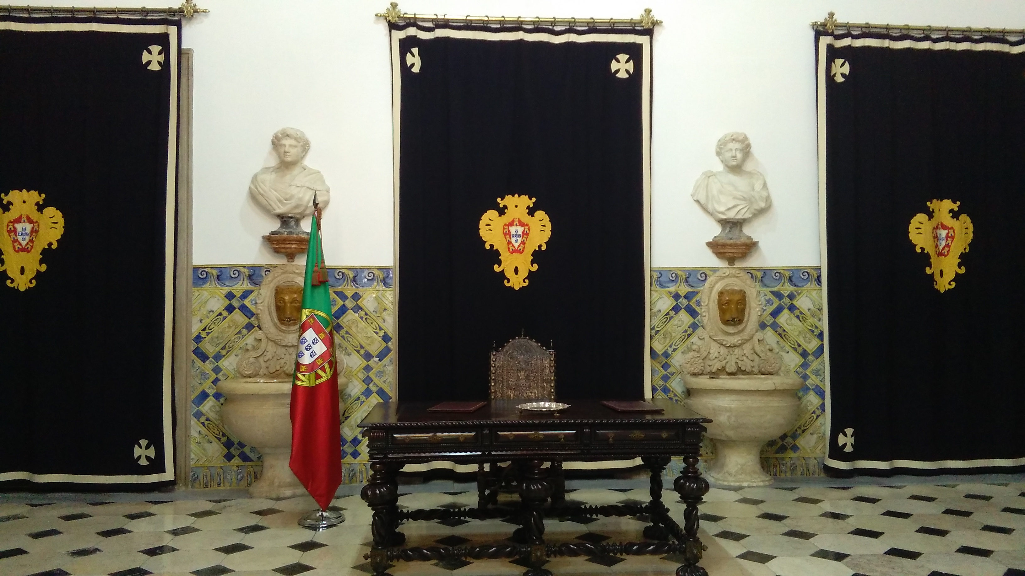 View of the desk and the spouts from which the room takes its name (Room of the Spouts),Sala das Bicas in Palácio Nacional de Belém, Lisbon, Portugal.